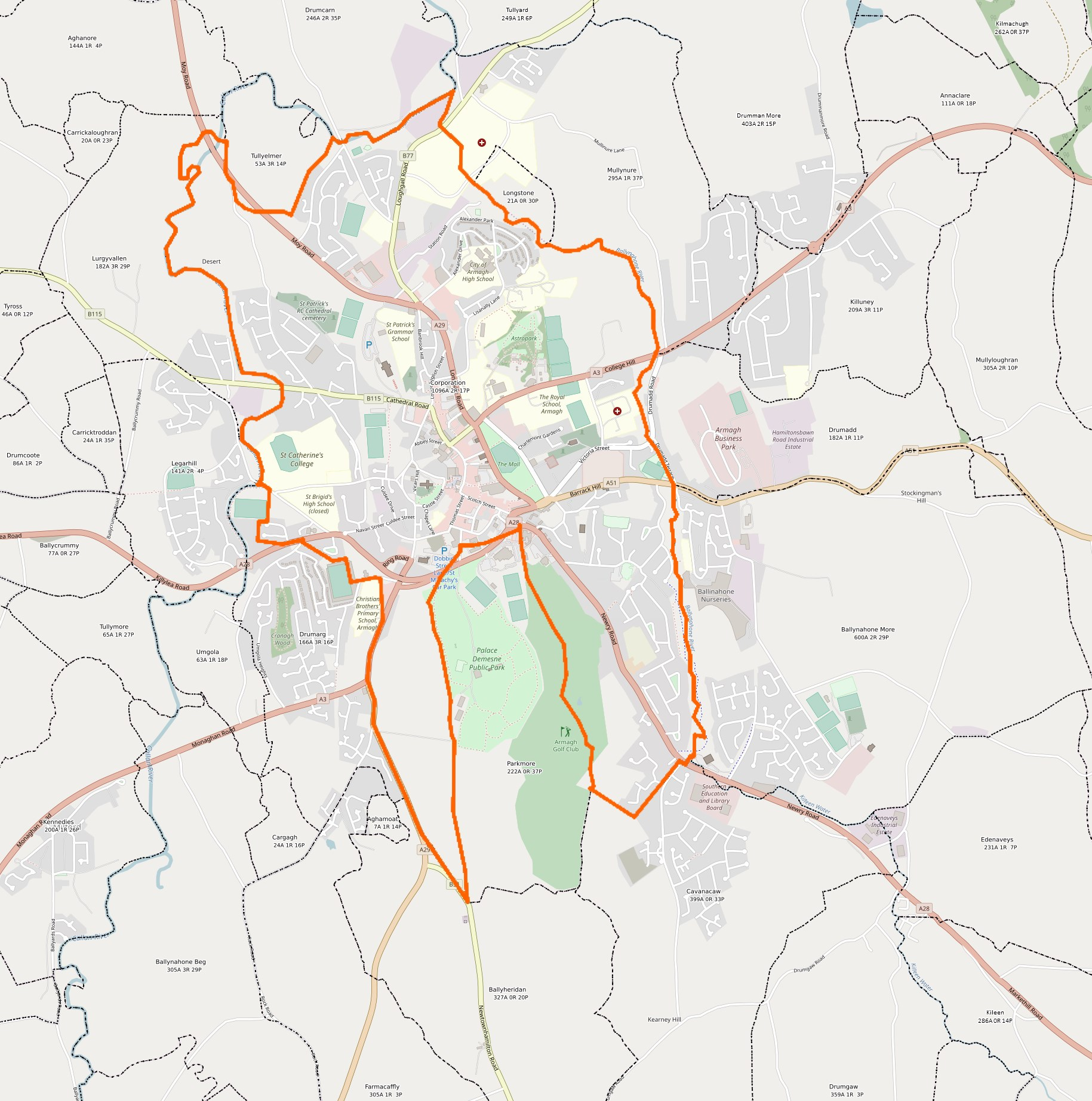 City of Armagh with townland boundaries, measurements below each townland title are acres, roods, and perches